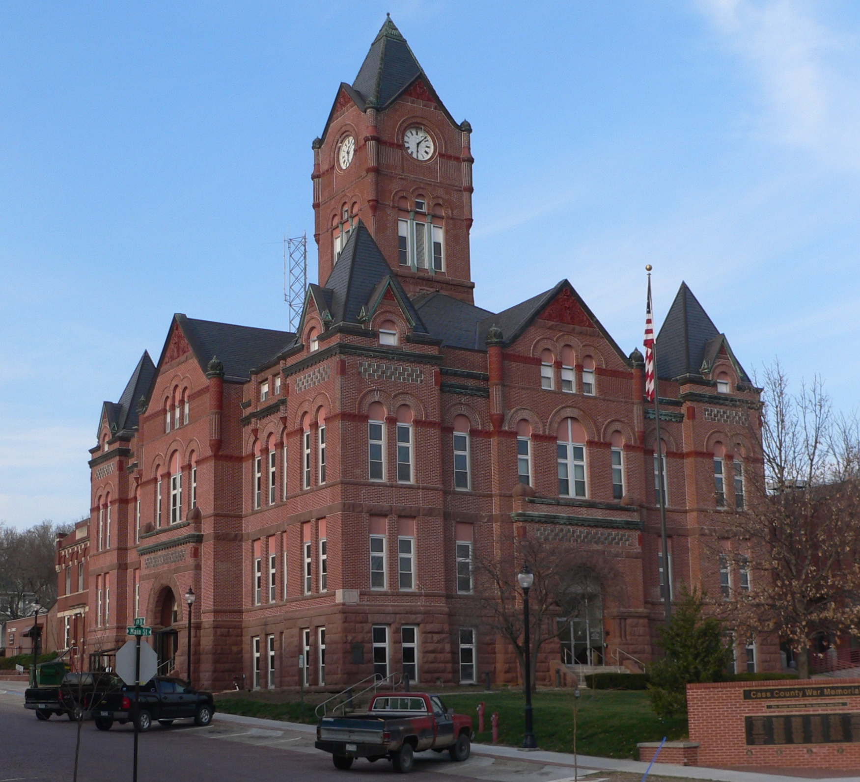 Cass County Courthouse, located at 346 Main Street in Plattsmouth, Nebraska; seen from the southwest.